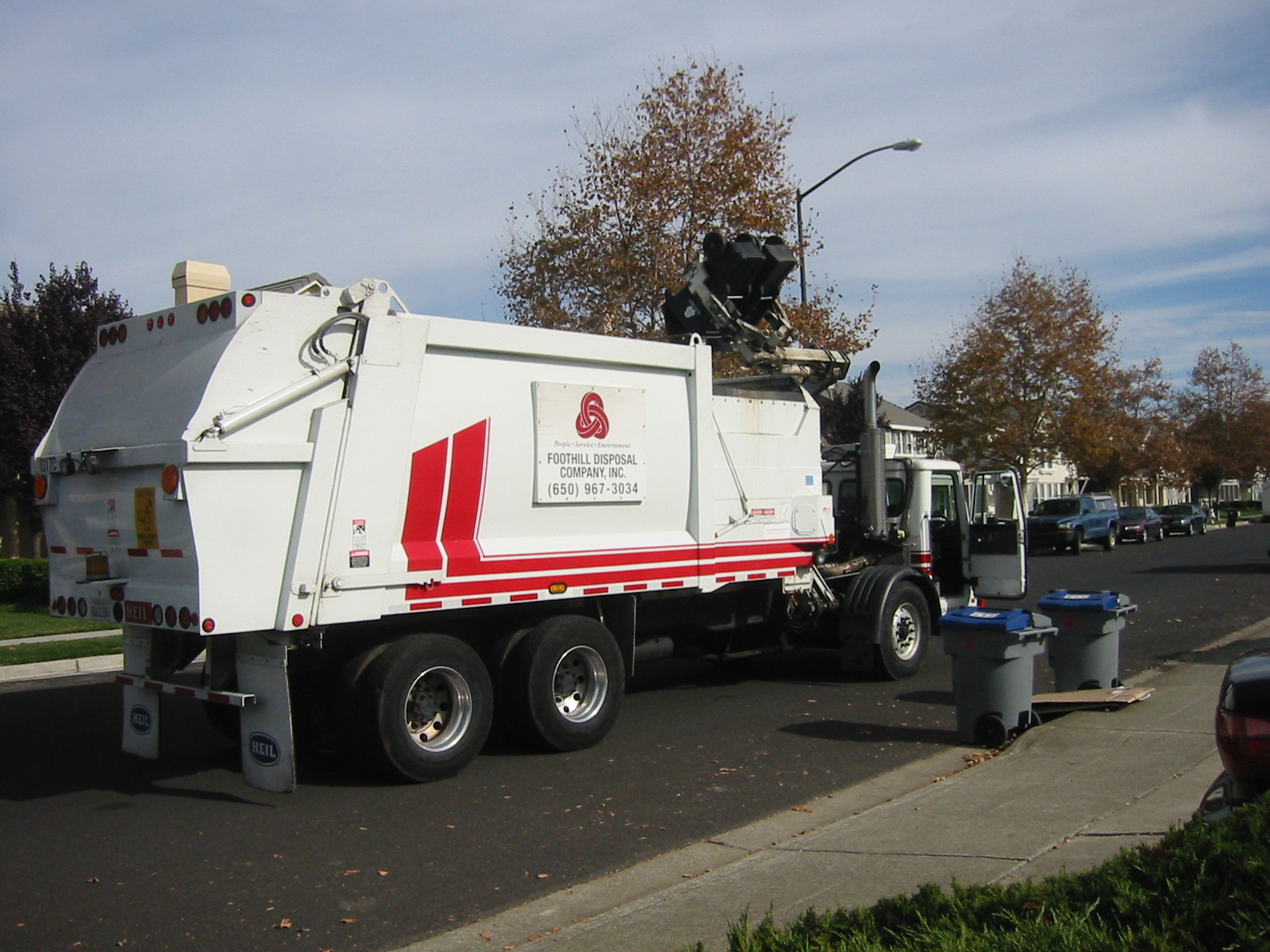 In theory, the machines should be able to navigate through the residential roads and using the arm, pick up the garbage containers. The system does not work that well. I was able to take these photographs while the man operating this machine was away making the waste containers accessible to the machine. This machine has an arm; others in this same fleet have a hook and the operator must get out of the truck at each location and attach the hook to the metal bars which are embedded into the front of these residential waste containers. The arm, grabbing two waste containers at one time is a rare and beautiful sight.